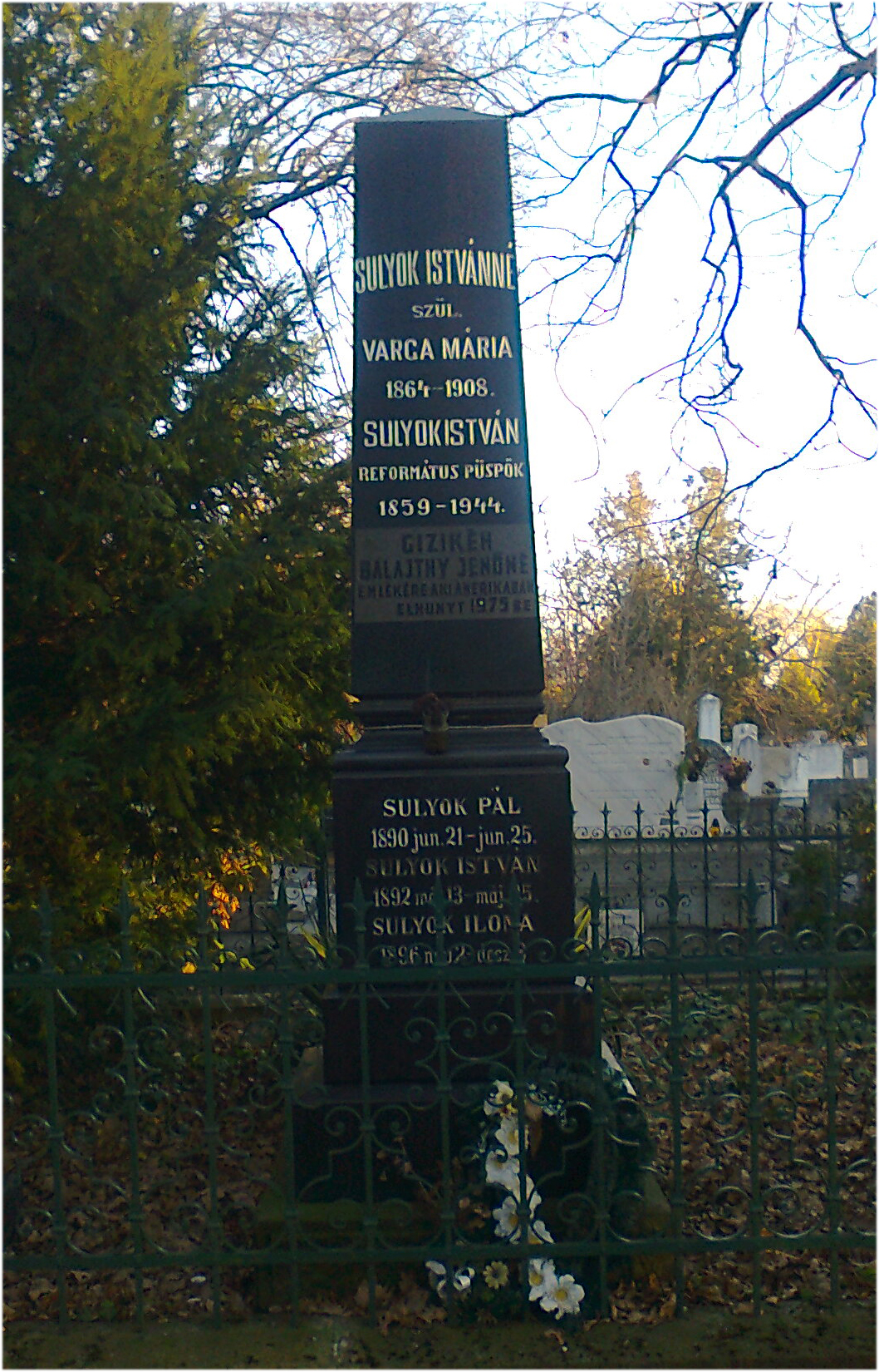 Grace of episcope István Sulyok